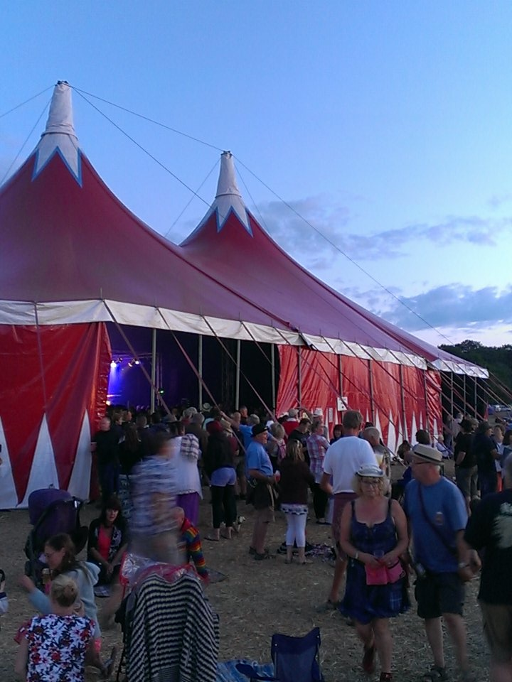 The Bowman Ales 2nd Stage at Wickham Festival 2015